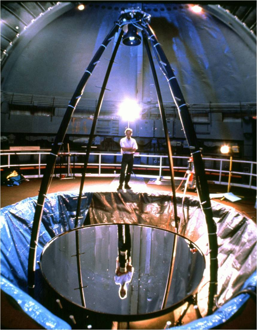 The Liquid Mirror Telescope, operated by the NASA Orbital Debris Program Office at the NASA Orbital Debris Observatory in Cloudcroft, New Mexico from 1996 to 2000.